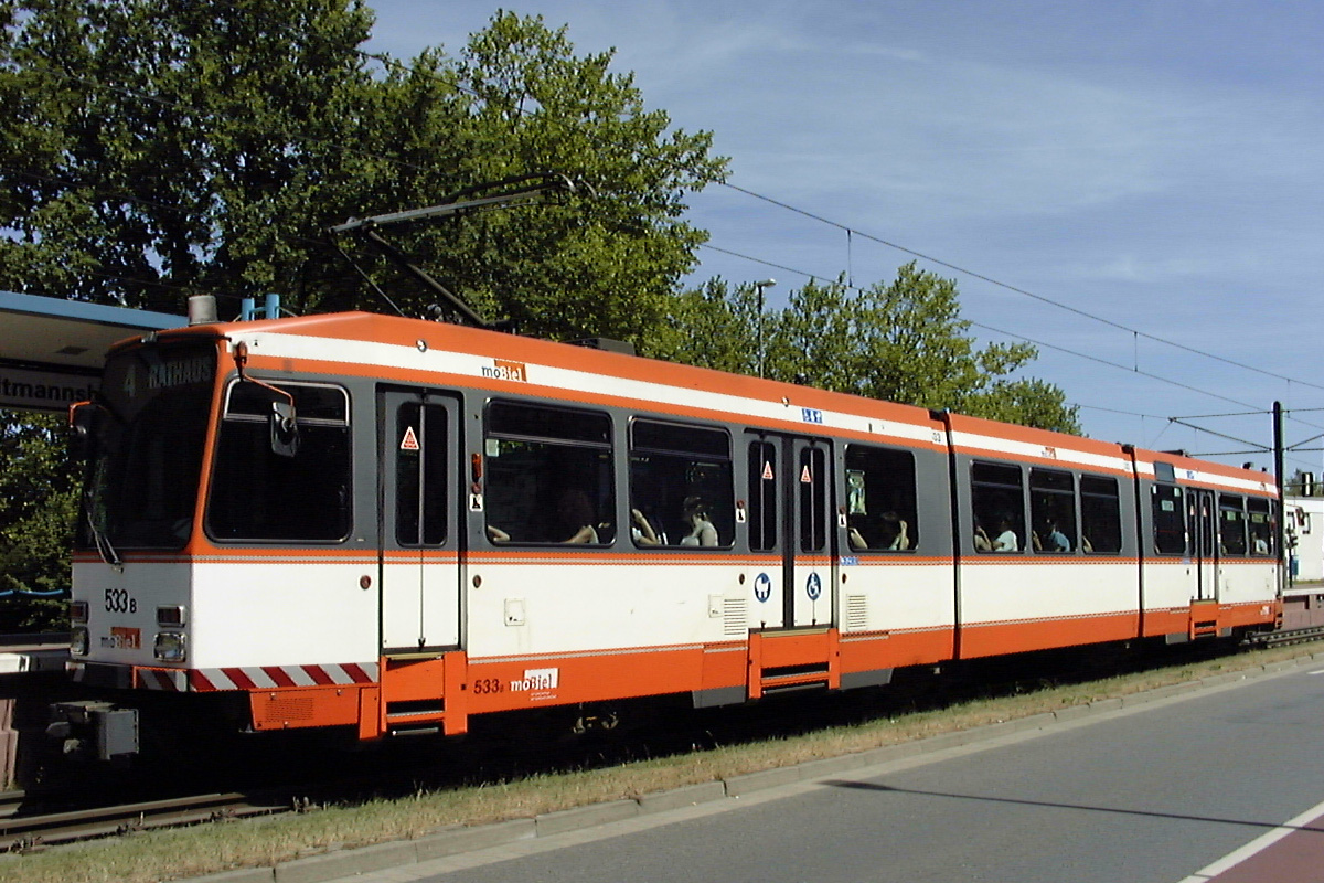 Bielefeld, Germany: Tram car type M8C, produced by Duewag/ABB, of the Stadtbahn Bielefeld at the tram stop “Bültmannshof”.